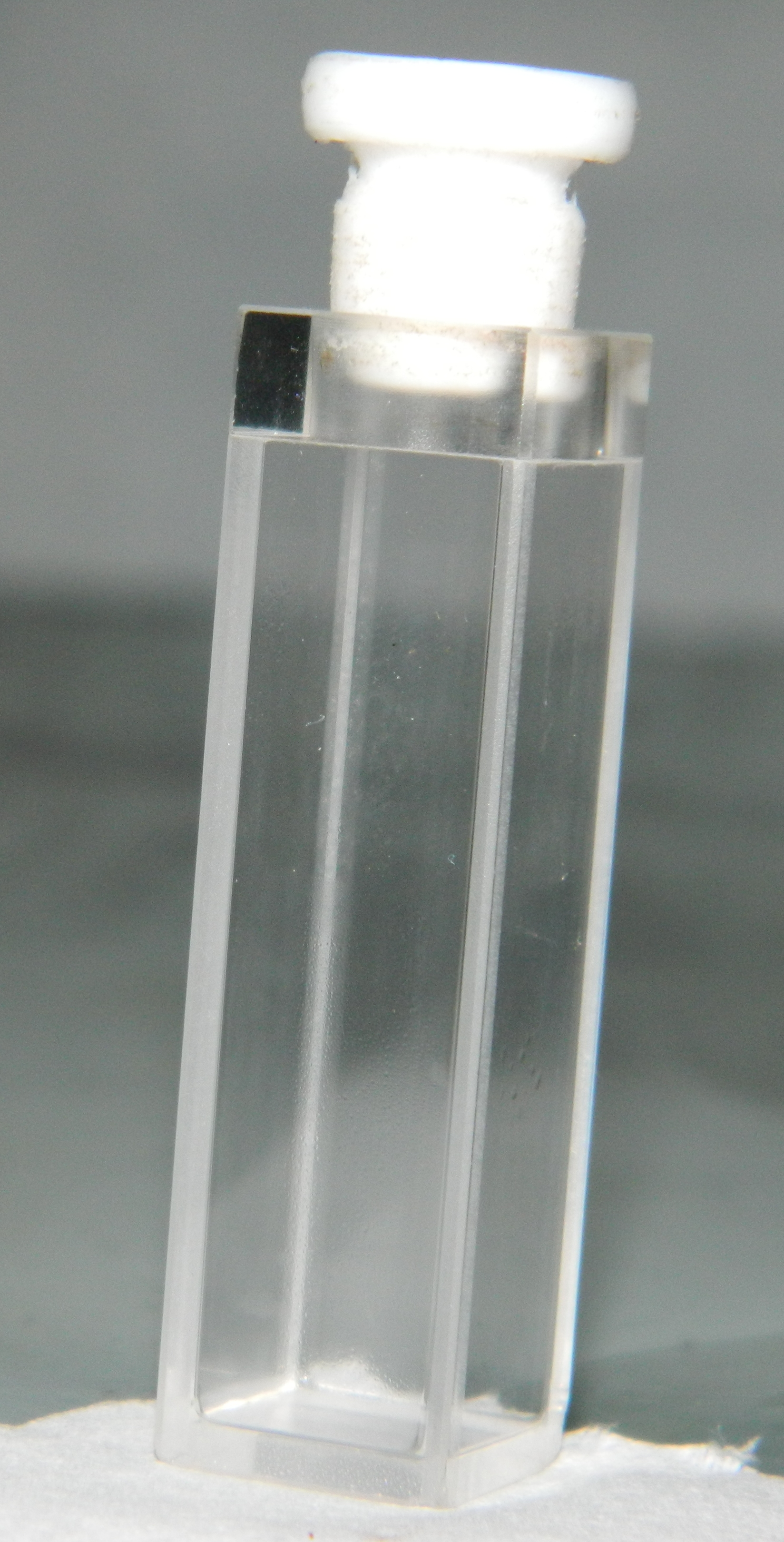 A standard 1 cm × 1 cm quartz cuvette